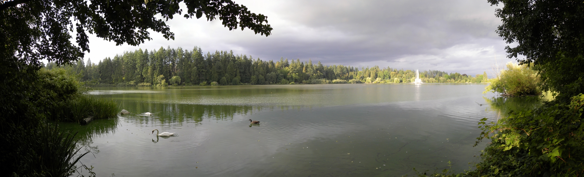 Panorama of the Lost Lagoon, Stanley Park, Vancouver